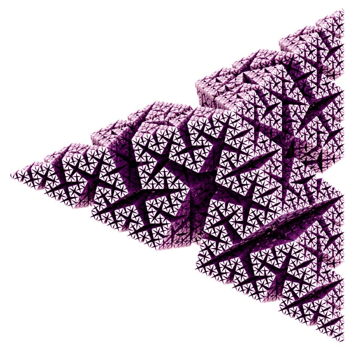 Three-dimensional extension of a Koch curve.